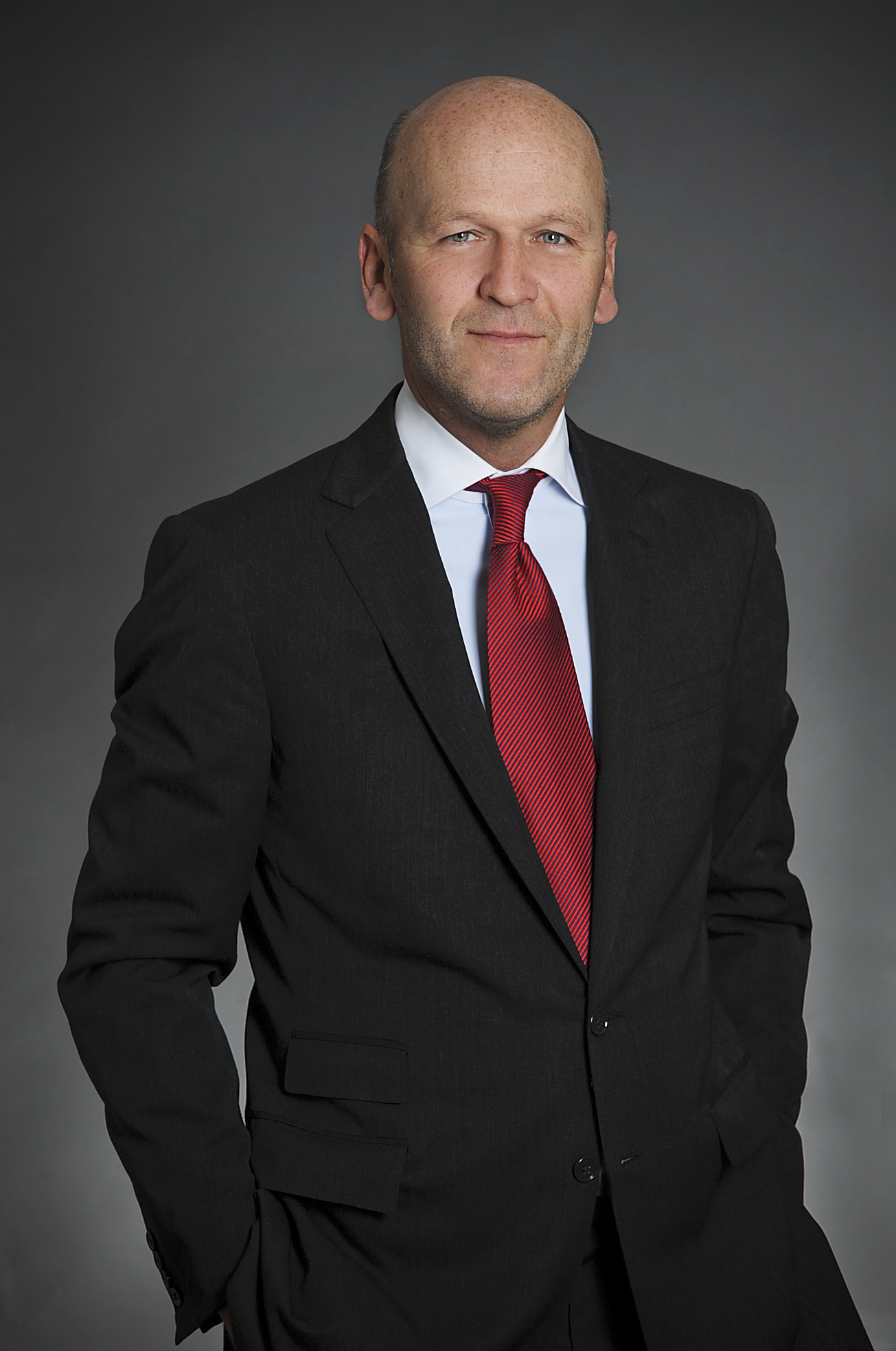 The Honourable Michael Fortier.